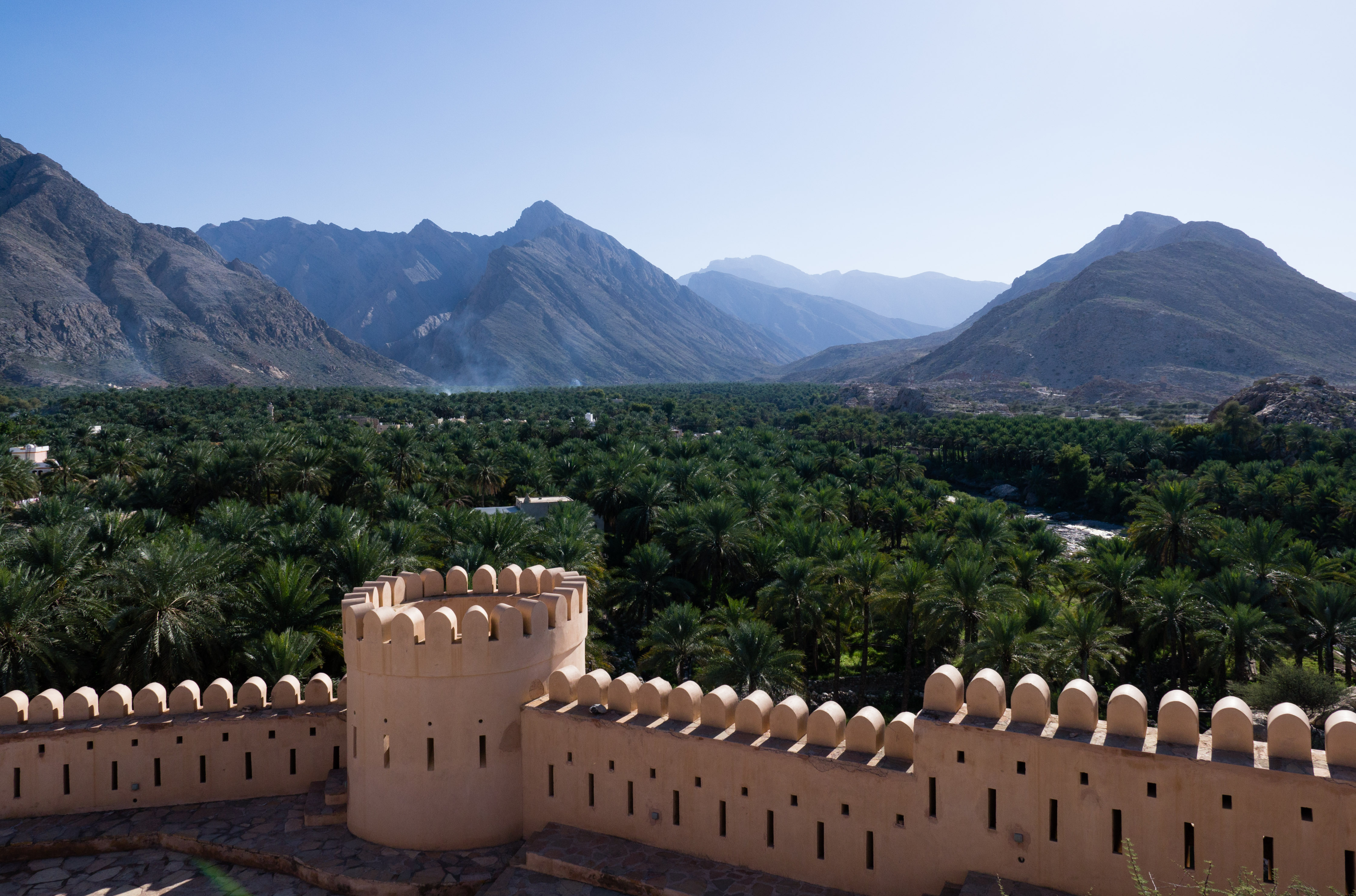 Nakhal Fort, Oman.